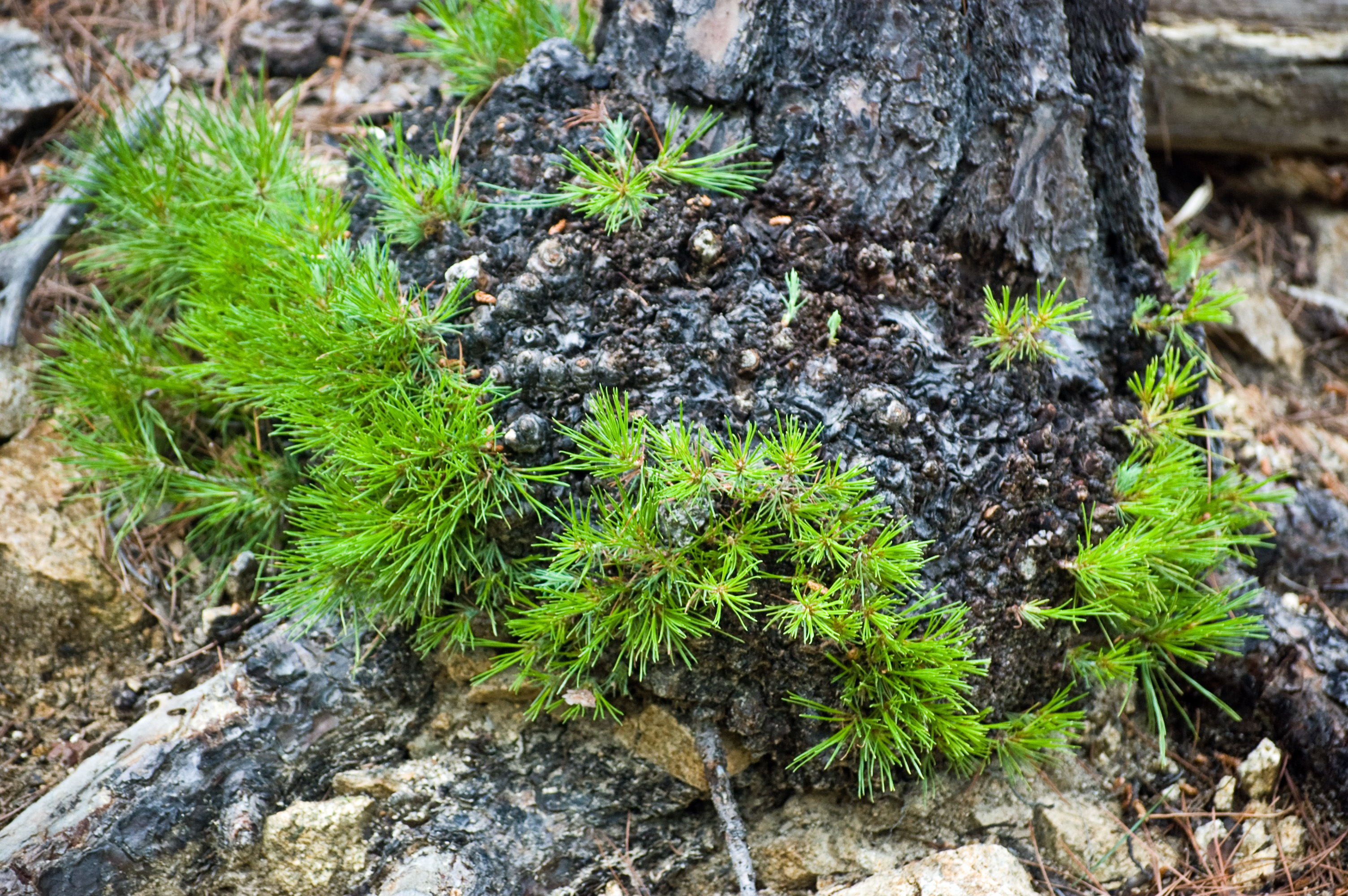 Pinus leiophylla subsp. chihuahuana — with burl at base of trunk with sprouts. Old Baldy Trail, Madera Canyon, Coronado National Forest, southern Arizona.